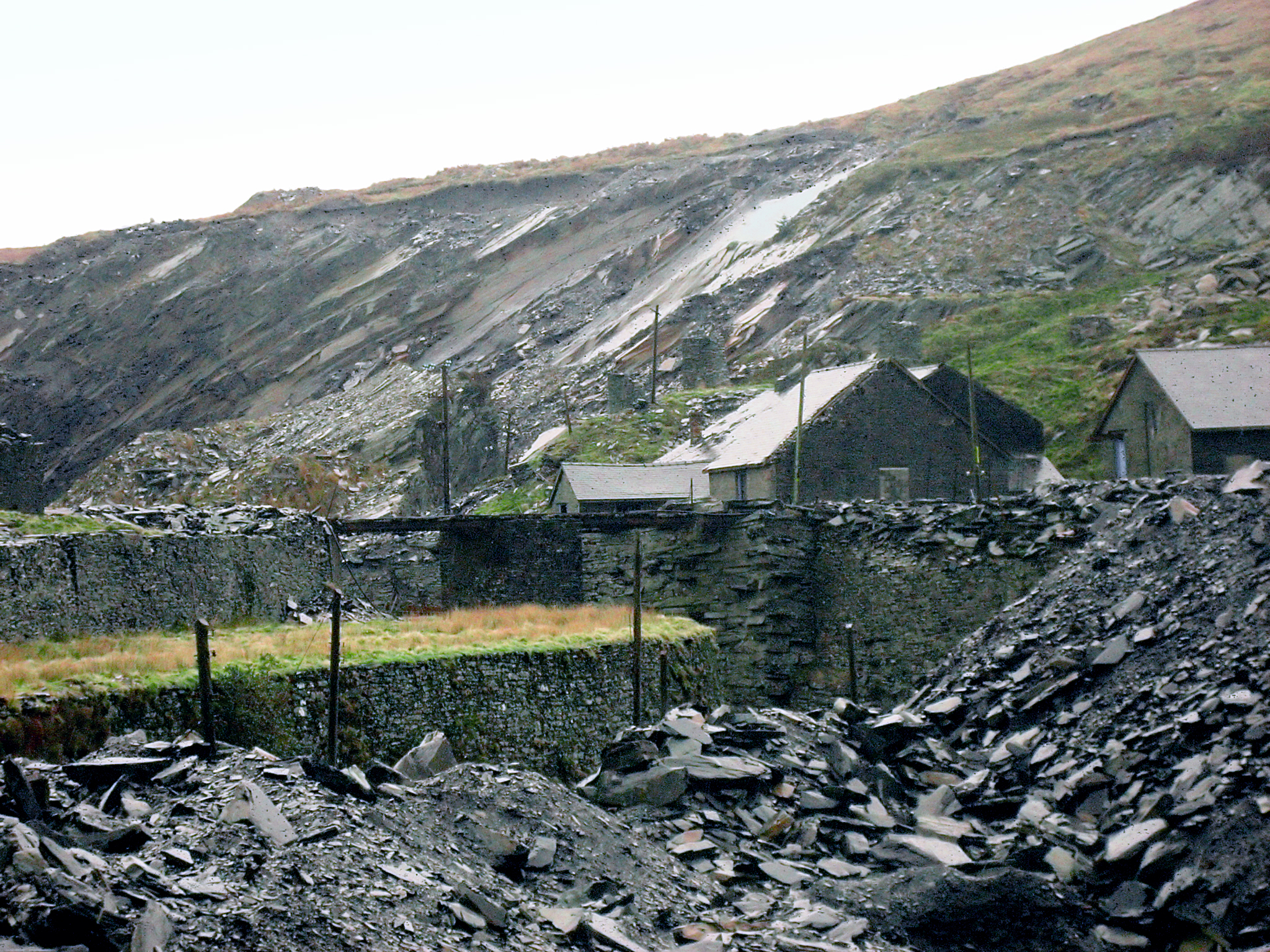 The Rhiwbach Tramway passing below and to the left of the main Maen Offeren mill. Behind is the David Jones pit.